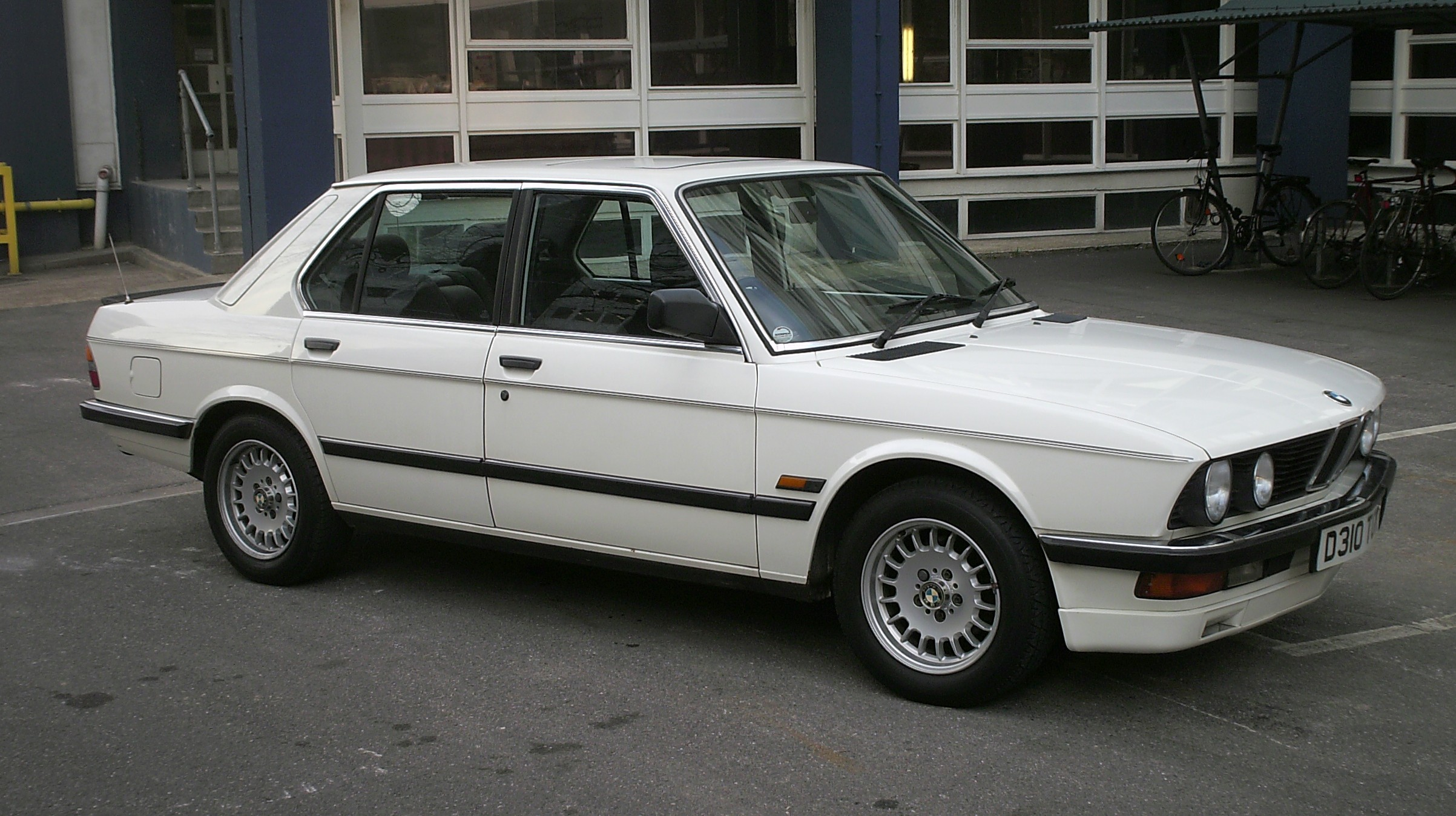 Taken by uploader, 20/02/2008 in Croydon, Surrey, UK.